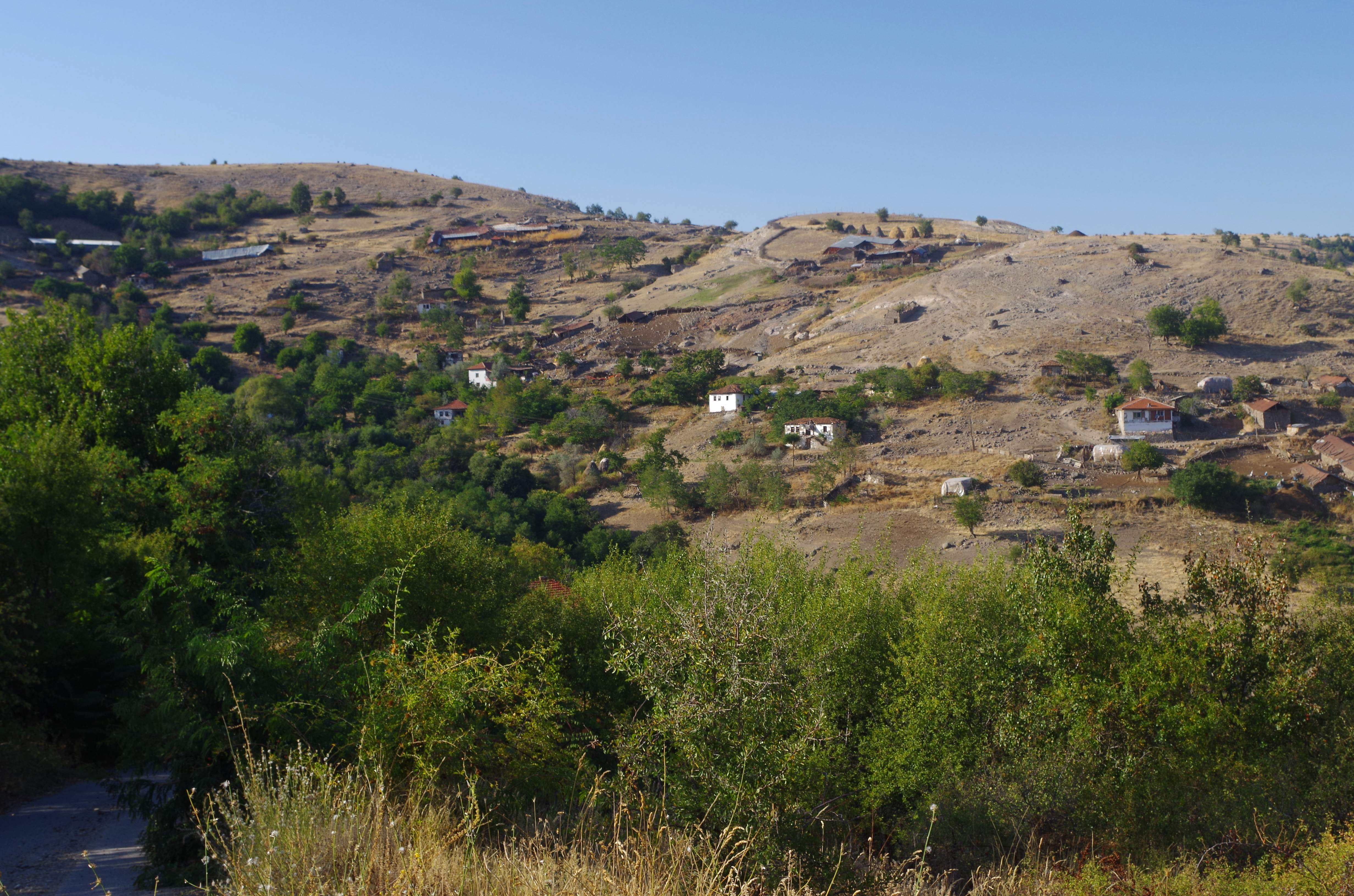 View of the village of Stragovo